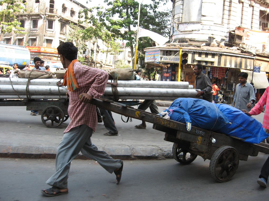 Man running with a handcart in Mumbai, next to another cart loaded with long pipes.Labour Work